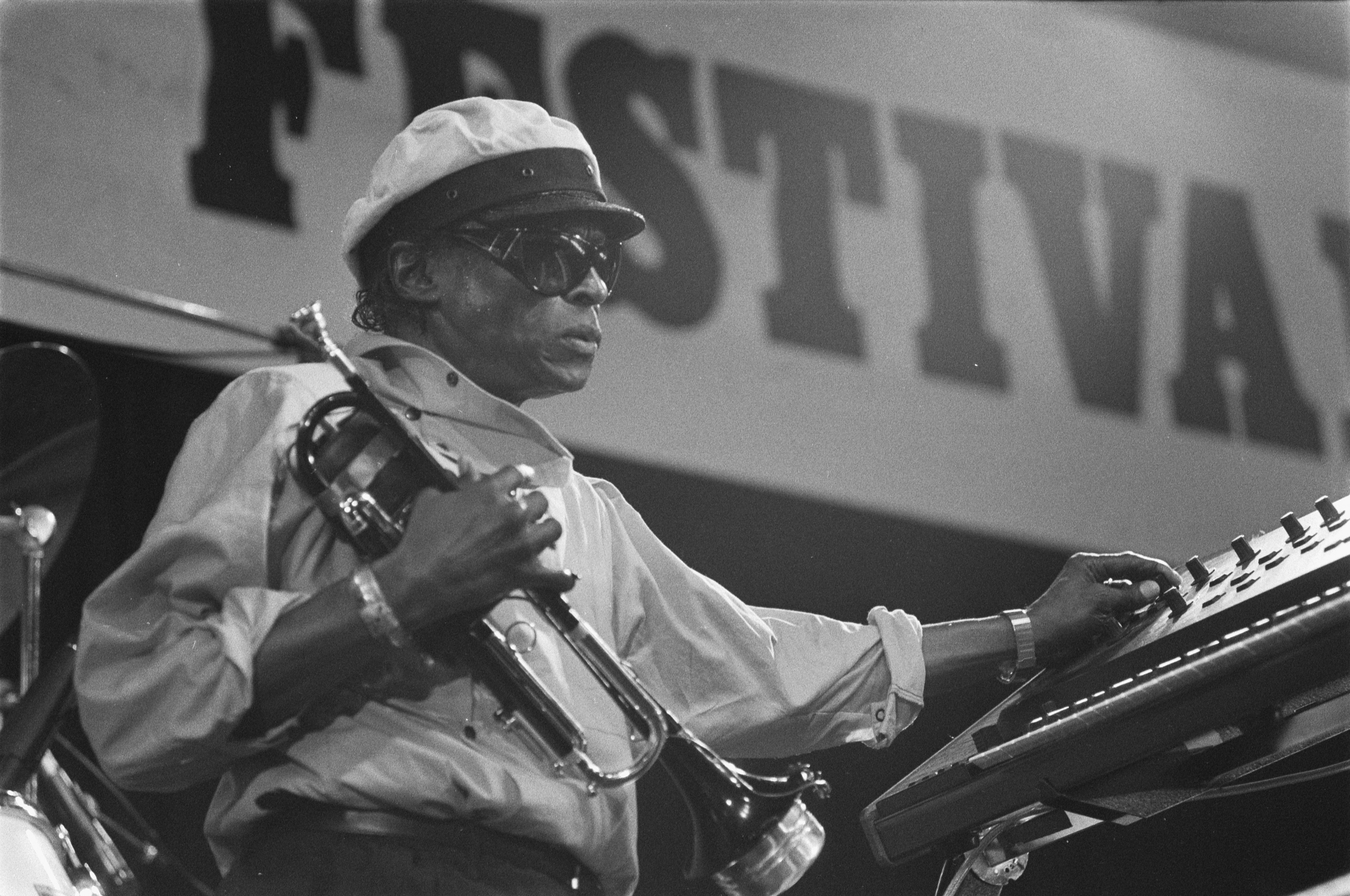 Miles Davis at North Sea Jazz Festival The Hague (the Netherlands), 15 July 1984